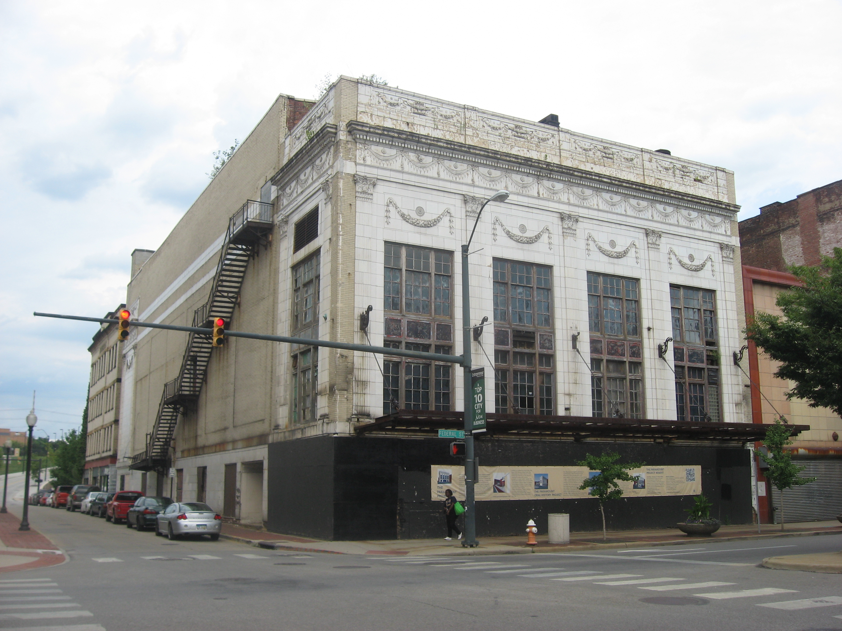 Front and western side of the Liberty Theatre, located at 142 W. Federal Street in downtown Youngstown, Ohio, United States. Built in 1917, it is listed on the National Register of Historic Places.